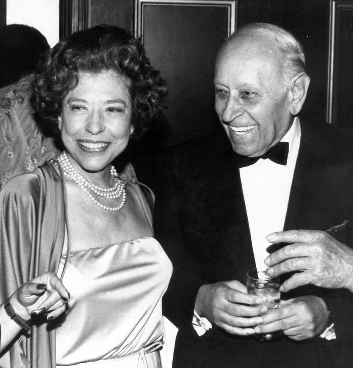 Photo of actors Judy Canova and George Raft